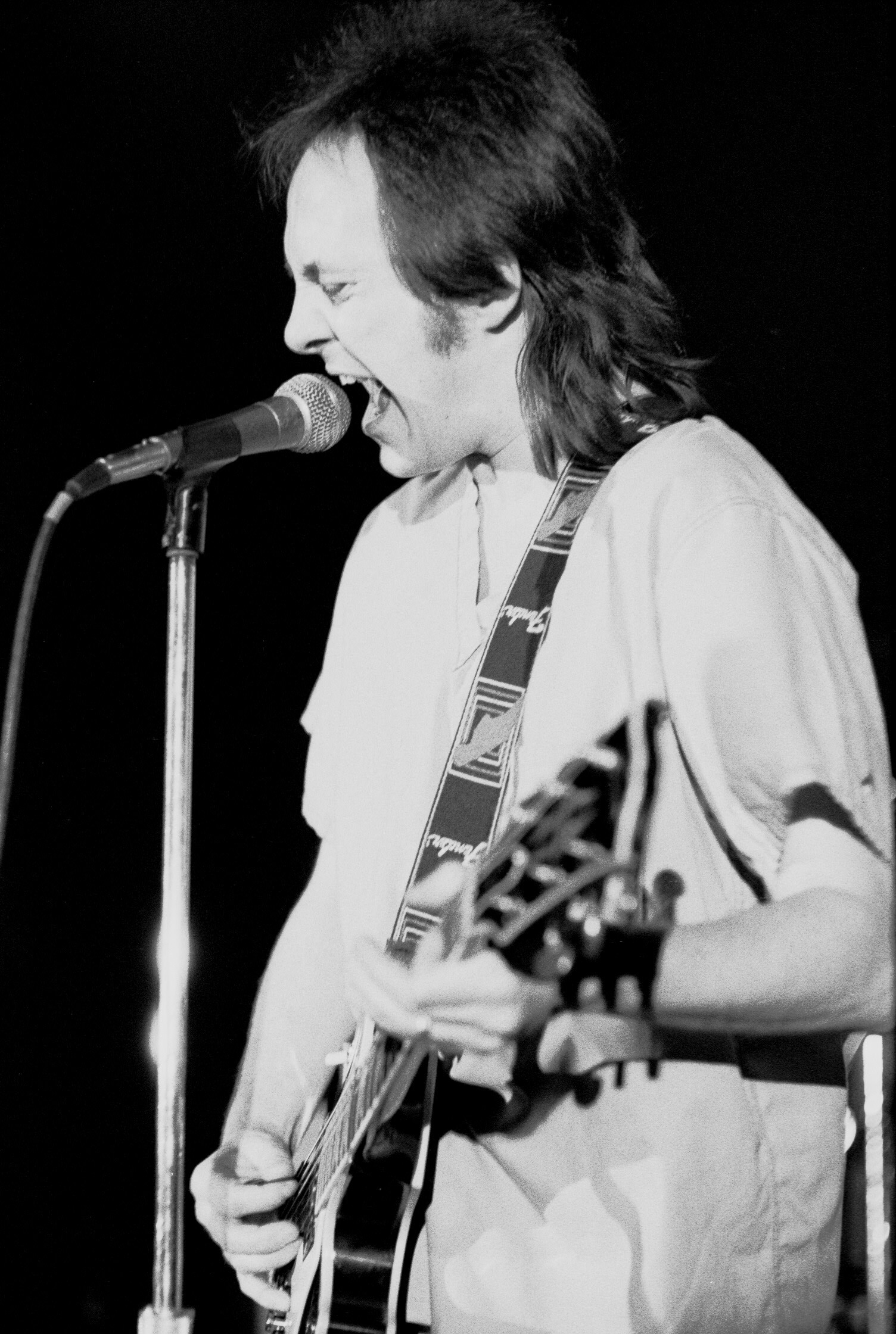 Steve Marriott performs at the Agora Ballroom in Dallas, Texas, 1980.